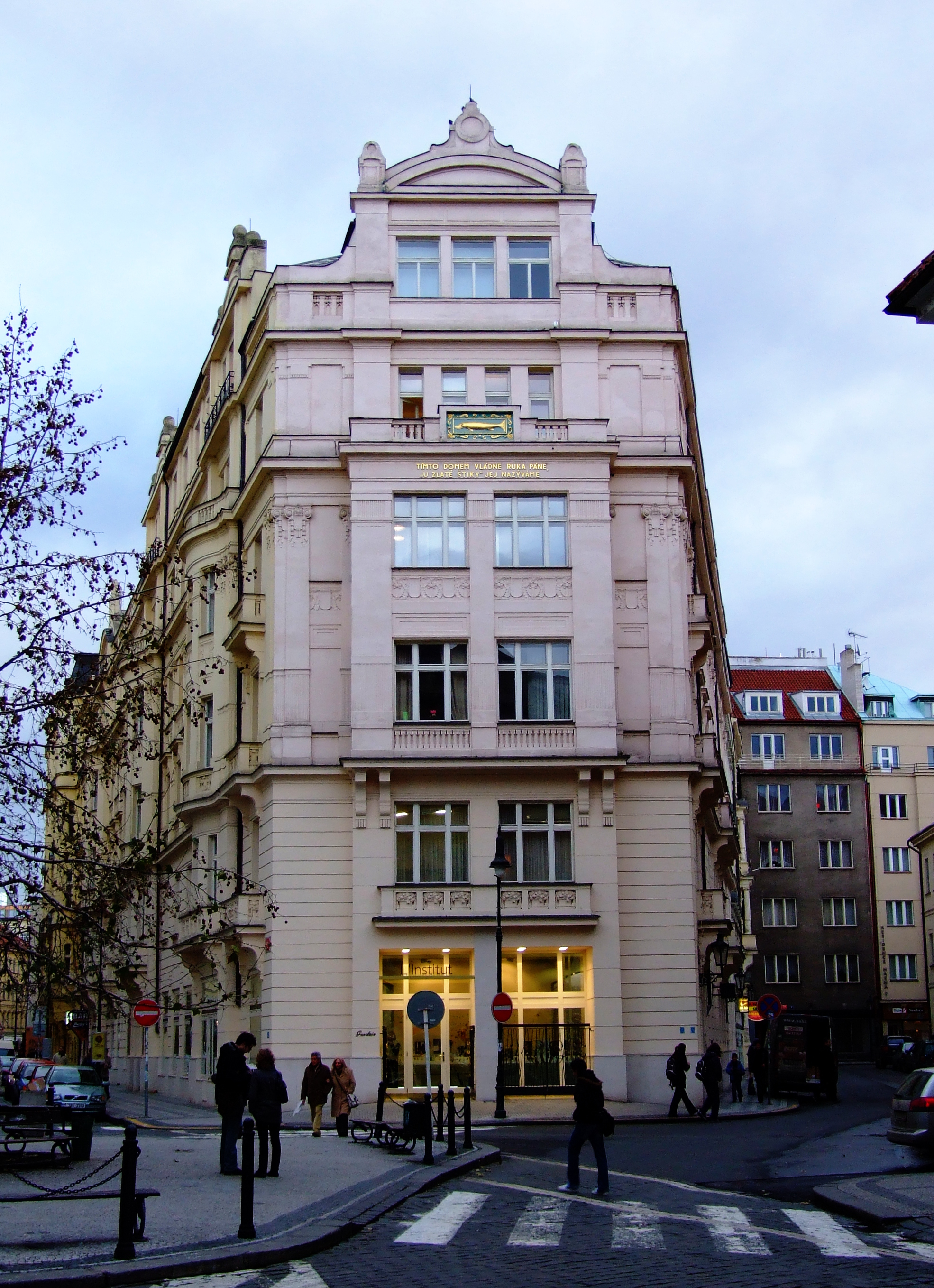 House at the Golden Pike, Old Town, Prague, Czech Republic.